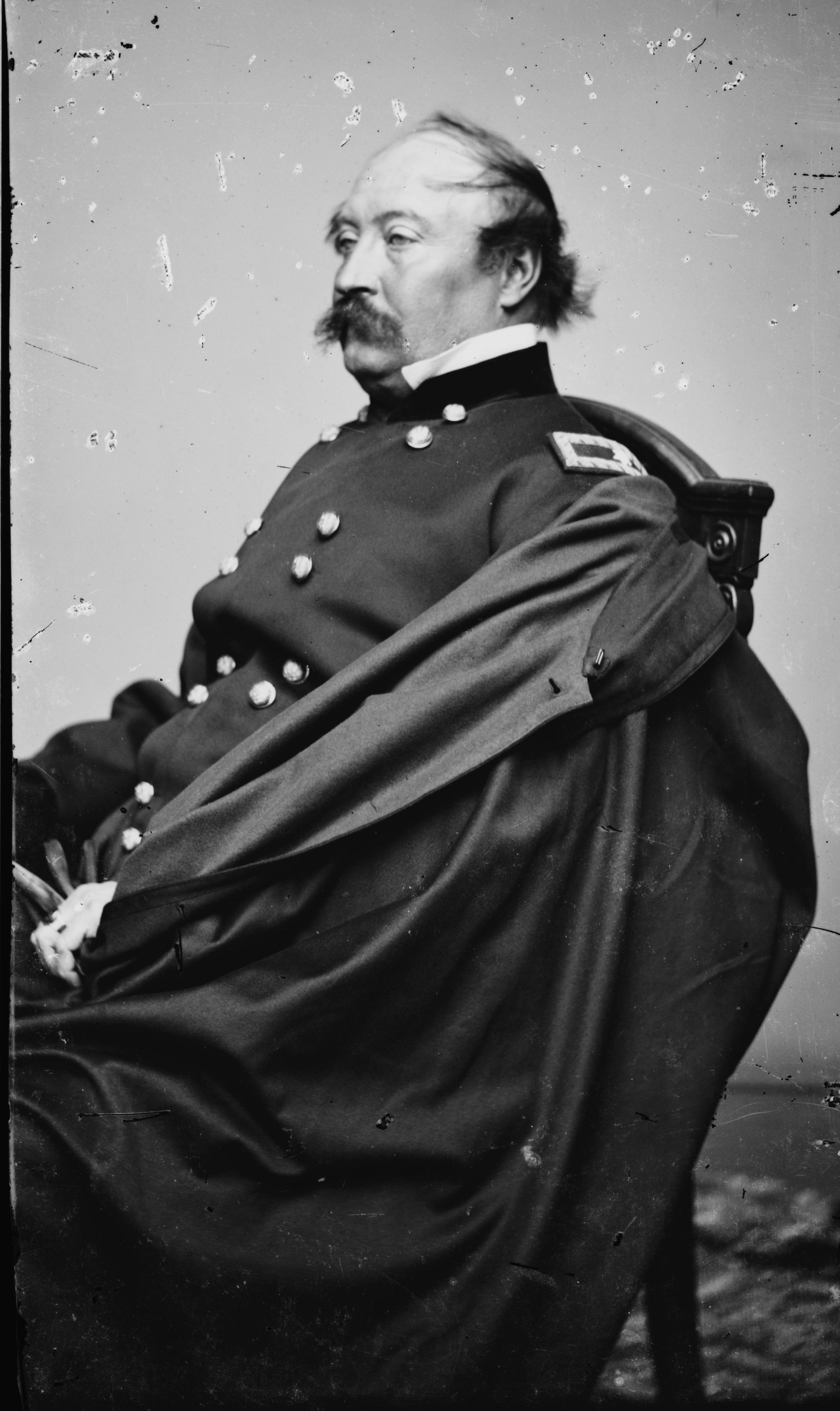 William H. French. Library of Congress description: "Gen. W. H. French, U.S.A."